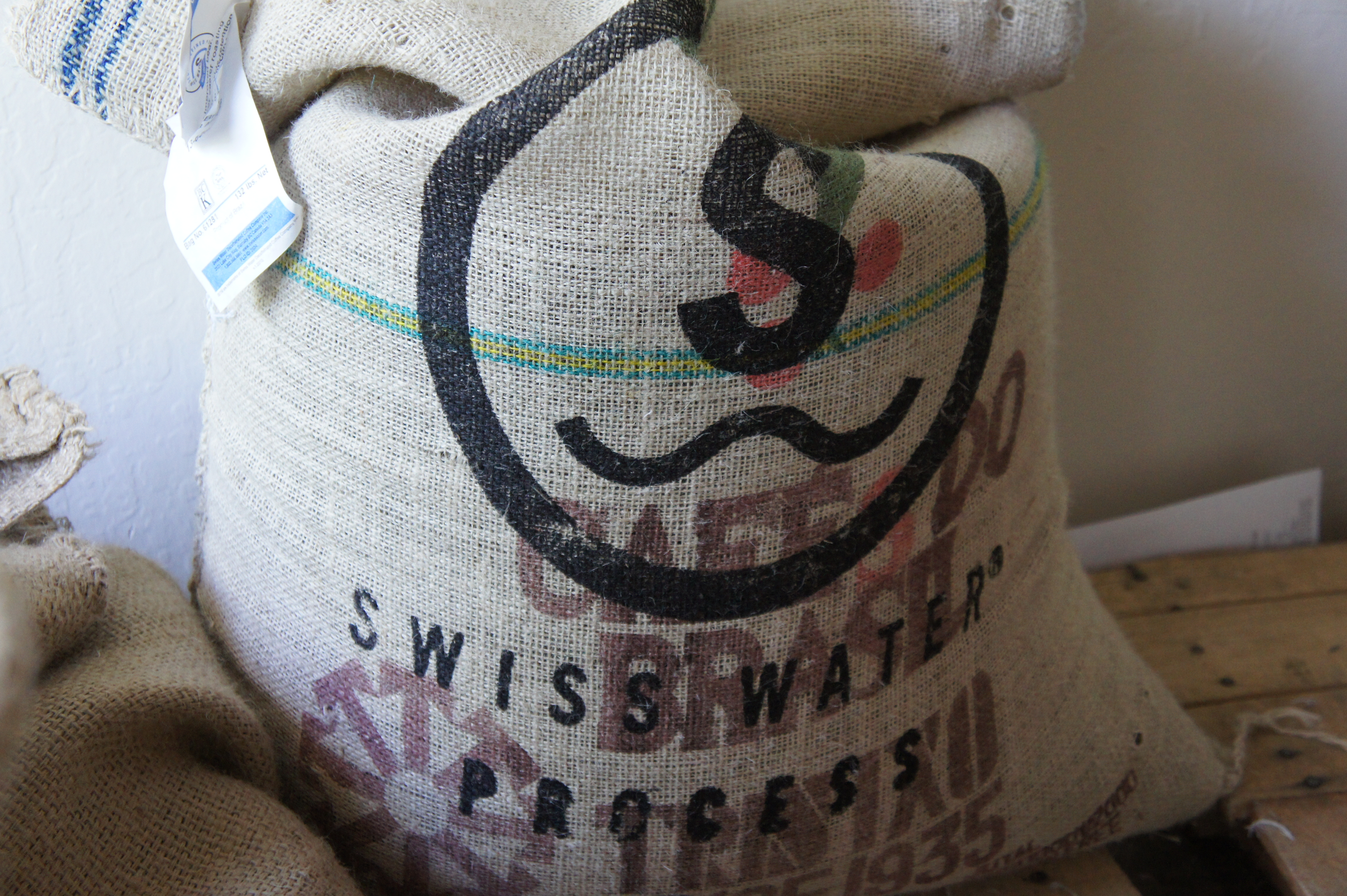 This photo shows a partially-full 130lb sack of green coffee beans. The beans have been decaffeinated using the swiss water process.